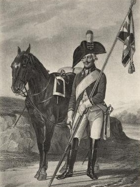 Standard-bearer of Nizegorodsky 17-th dragoon Regiment, 1797-1800.